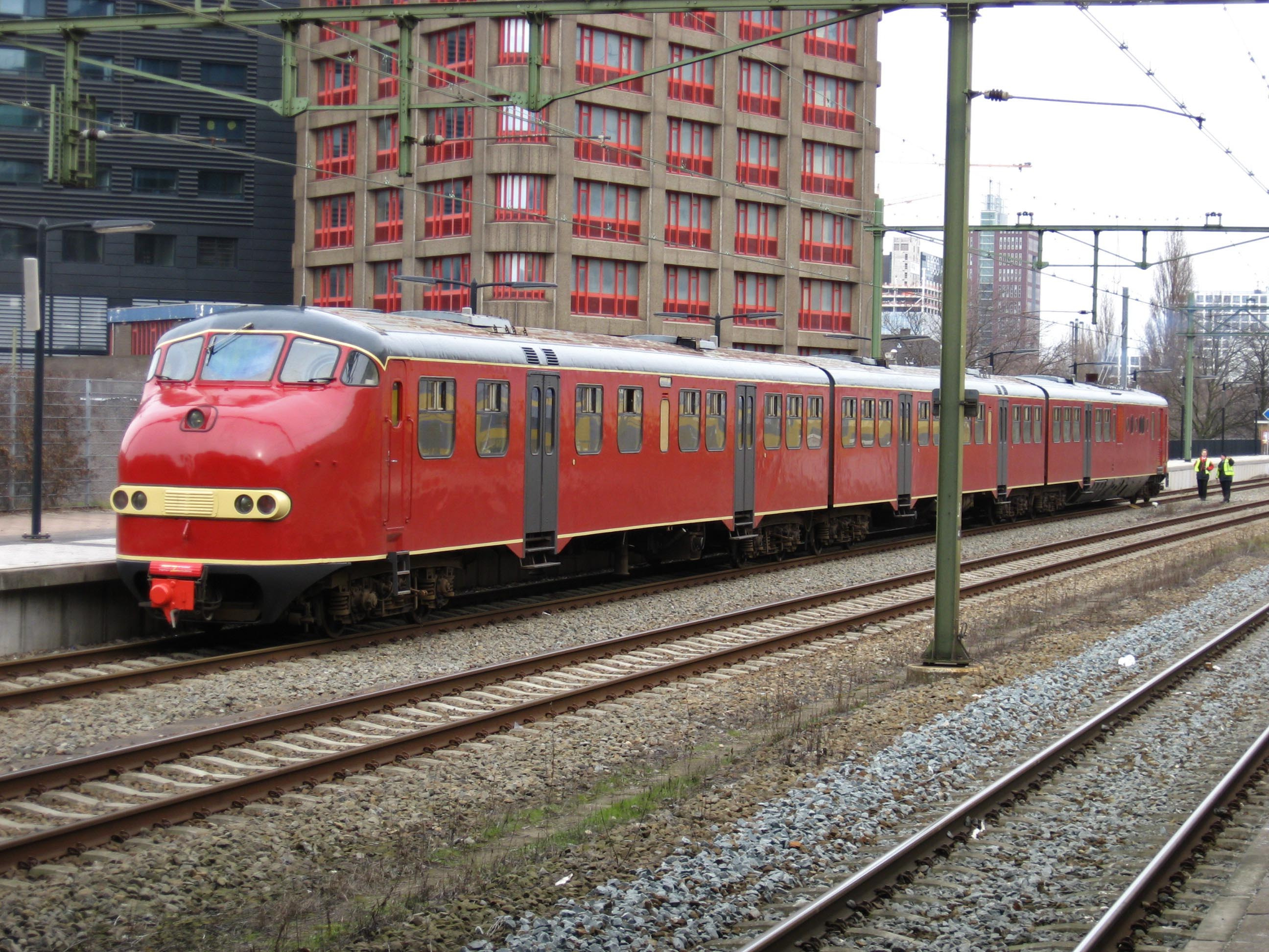 Special restored plan U multiple unit in Den Haag HS